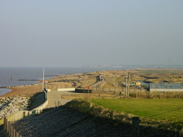 Coastline east of Reculver The pools on the right are a shellfish hatchery, Margate is visible on the horizon.